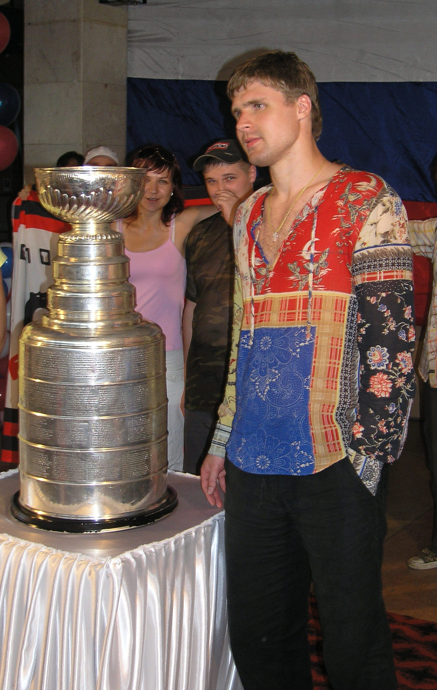 Ilya Bryzgalov and Stainley Cup, Togliatti, Russia